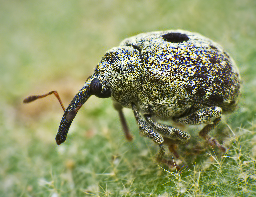 This nice bug was found by my cousin. I captured this image in the Great Nemunas Loops regional park near the Nemunas river. The bug seemed very interesting for me because of black spot on its body, it looks like a money-box. ;) Please have a view of full size... Thanks :)